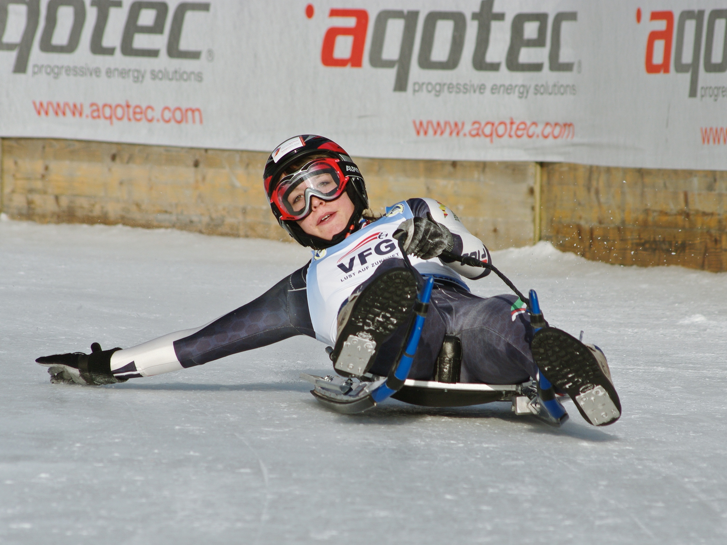 Italian natural track luger Alexandra Obrist at the FIL European Luge Natural Track Championships 2010 in St. Sebastian, Austria.